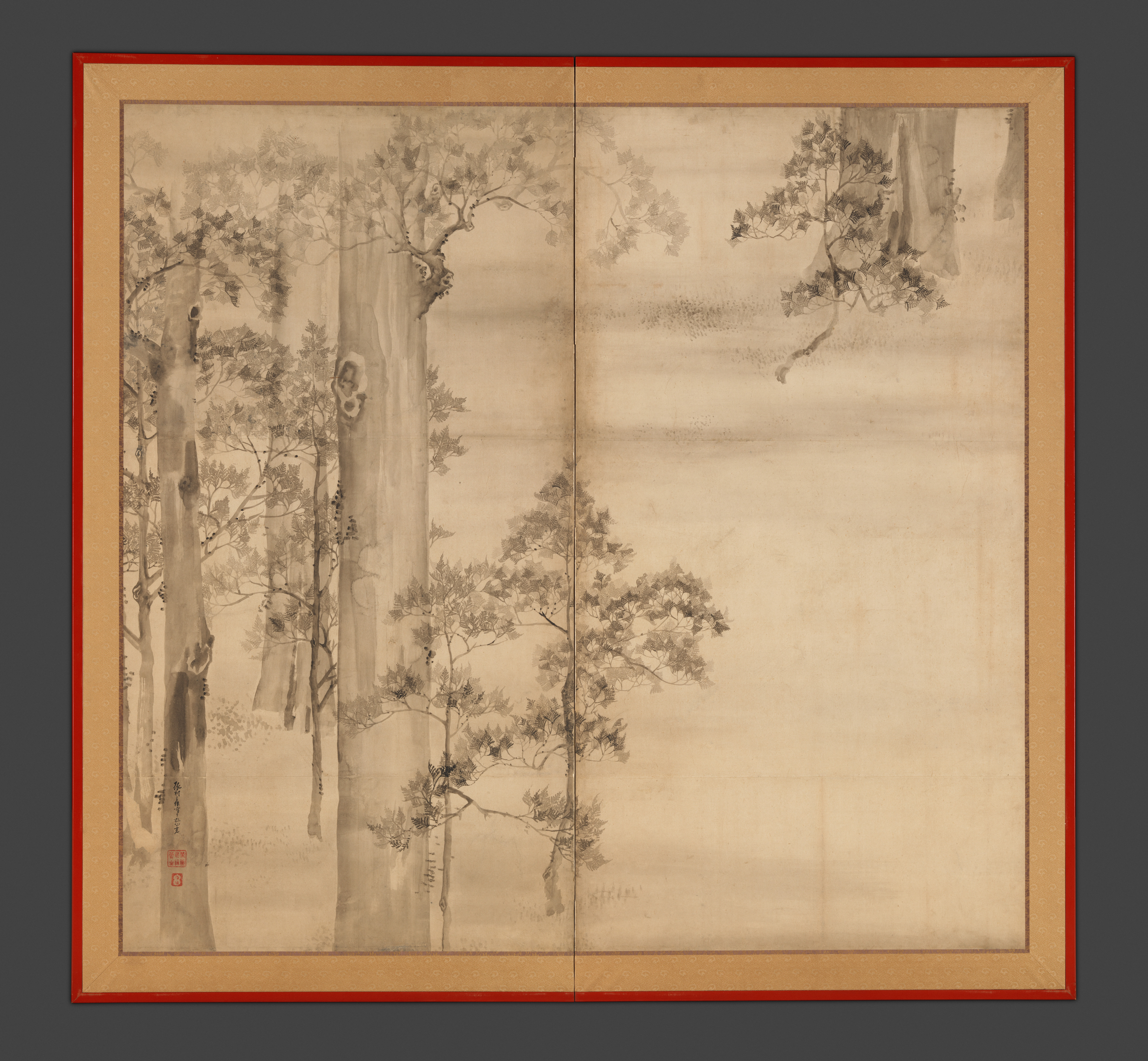 Japan; Screens; Screens